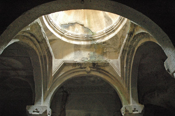 Geghard monastery, Armenia